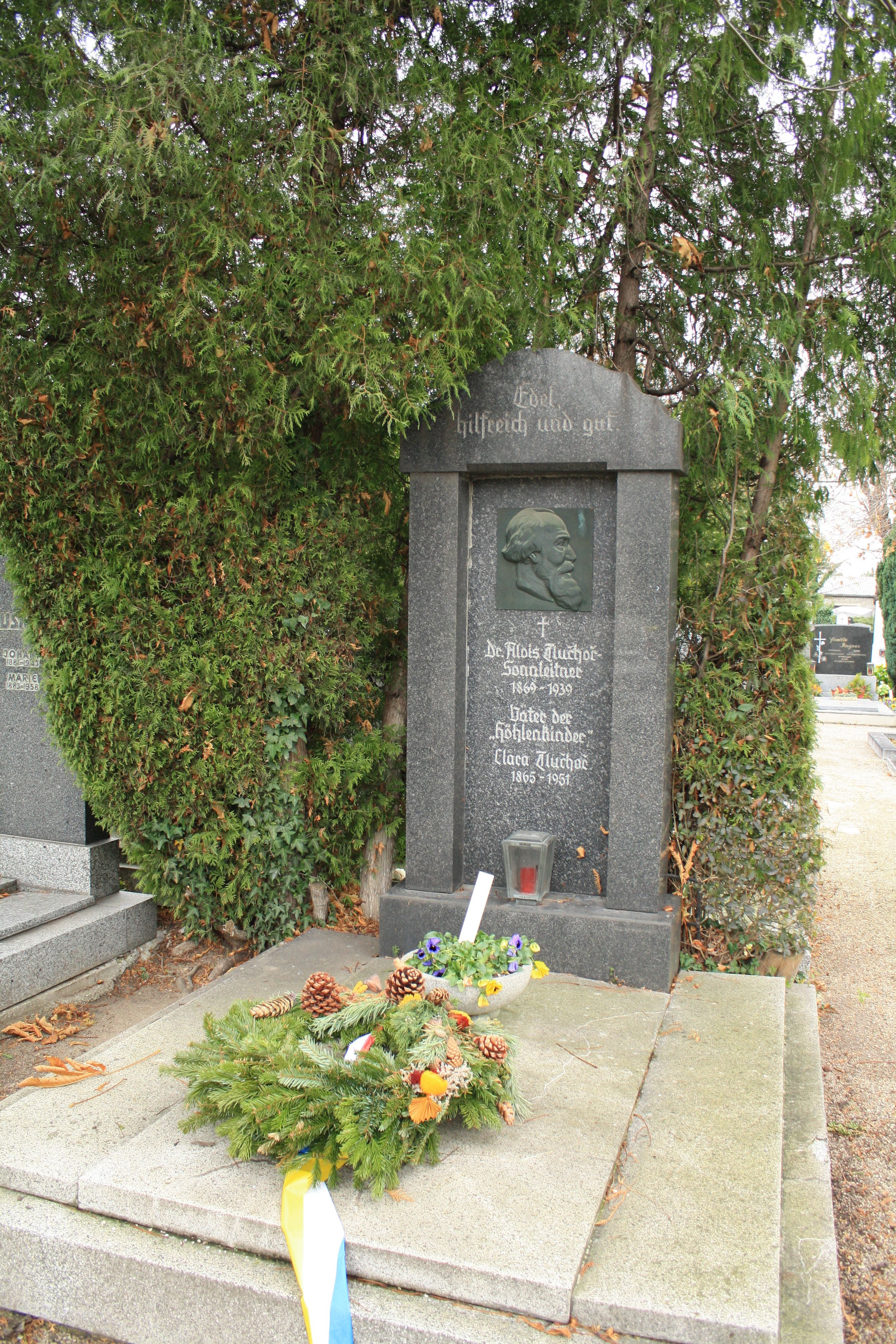 Cemetery in Perchtoldsdorf in Lower Austria